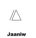 This image derives from the Serer Raampa pictography. An ancient style of writing that the high priests and priestesses of the Serer people of Senegal, Gambia and Mauritania used to use to communicate with each other. It was mainly religious. It was used by the Serer-Saafi and the Serer-Sine people among other branches of the Serer ethnic group.The name of this symbol is "Jaaniw", which symbolizes "the afterlife" in Serer religion.